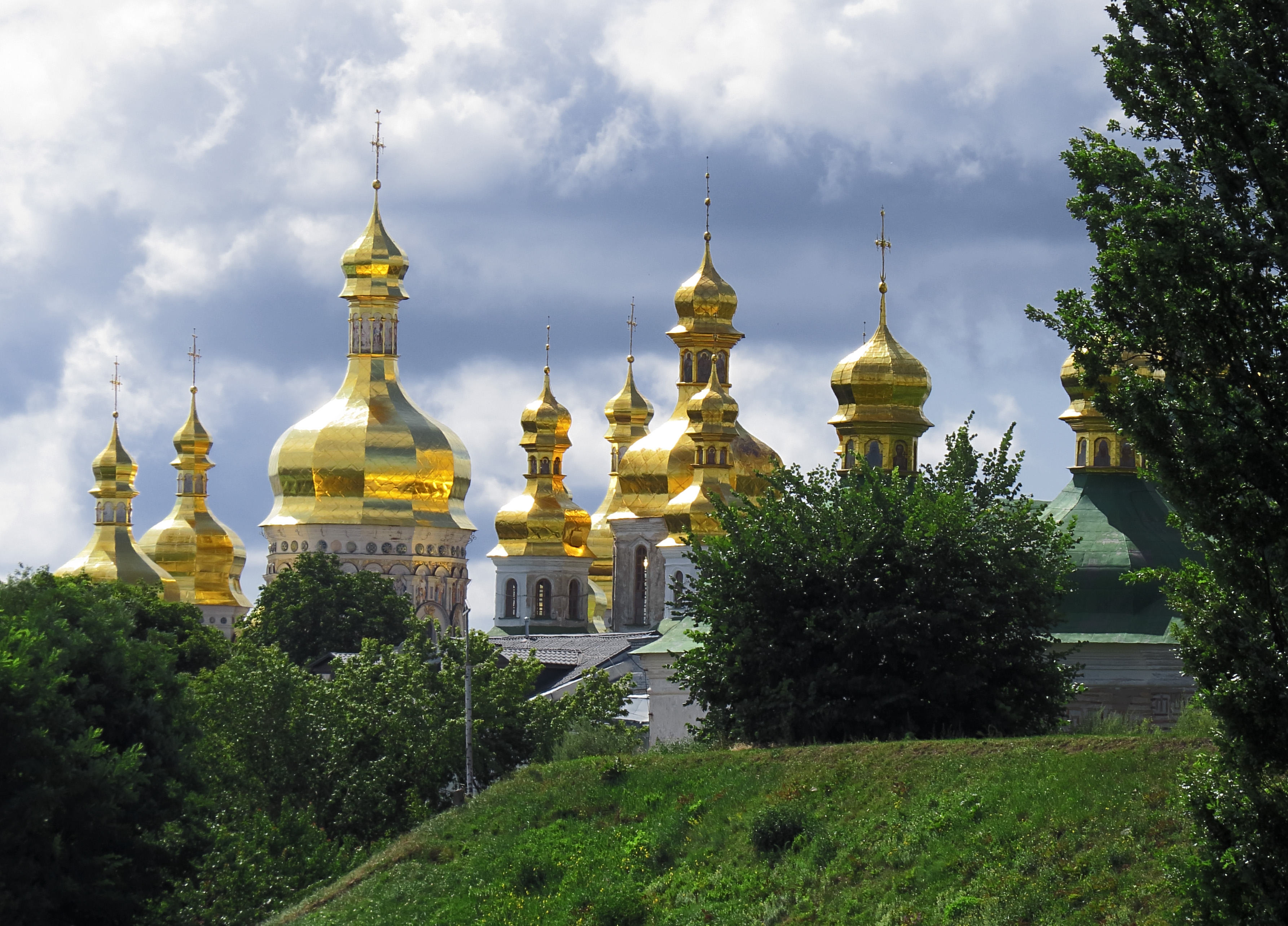 Church of the Saviour at Berestove in Kiev, Ukraine. View from Slava park